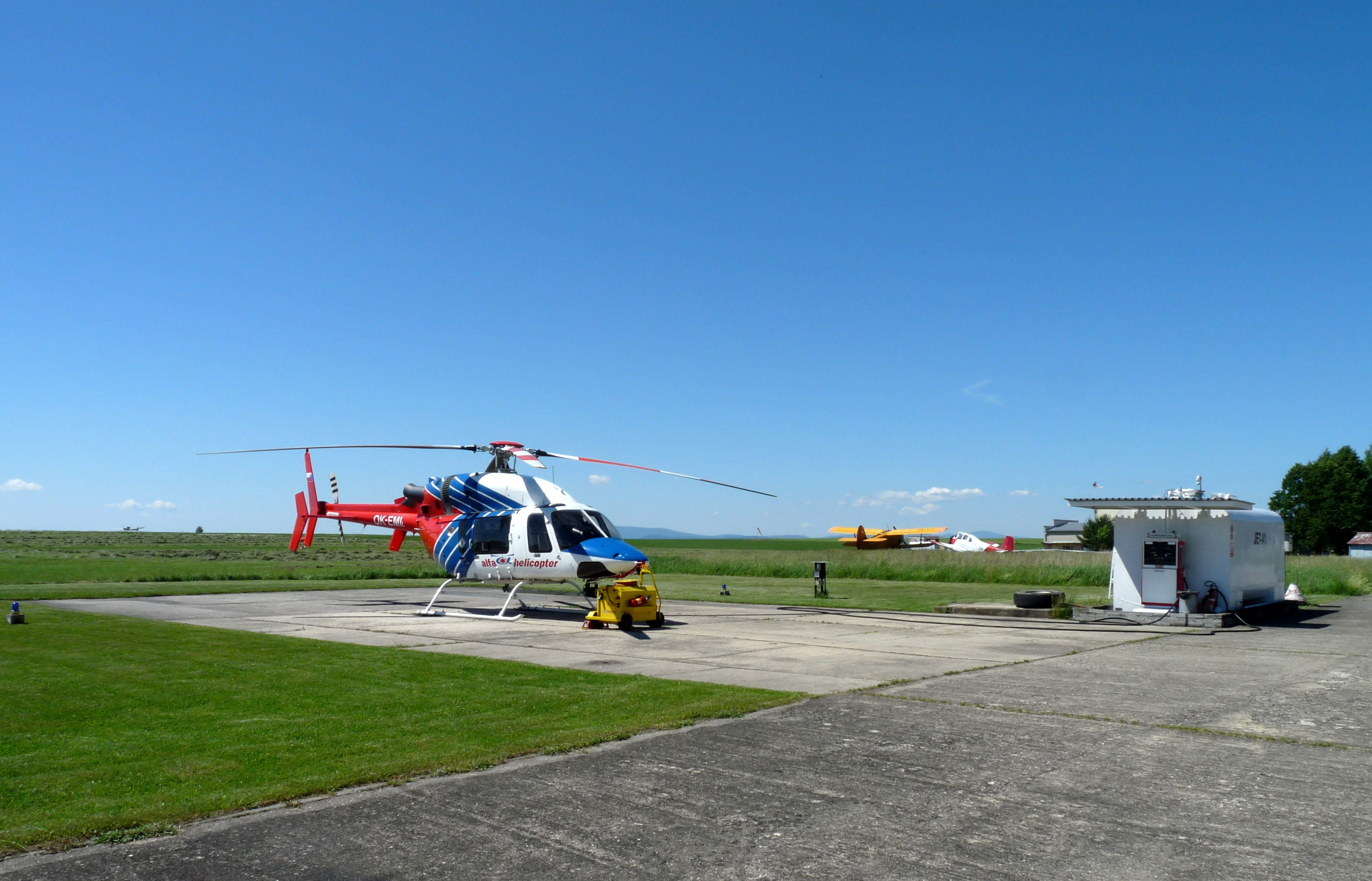 Rescue helicopter Bell 427 (OK-EMI) and an aviation fuel pump at the air ambulance station located in the airport in Hosín, České Budějovice District, South Bohemian Region, Czech Republic